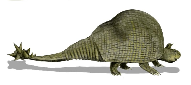 Doedicurus clavicaudatus, a glyptodont from the Pleistocene of North and South America, pencil drawing